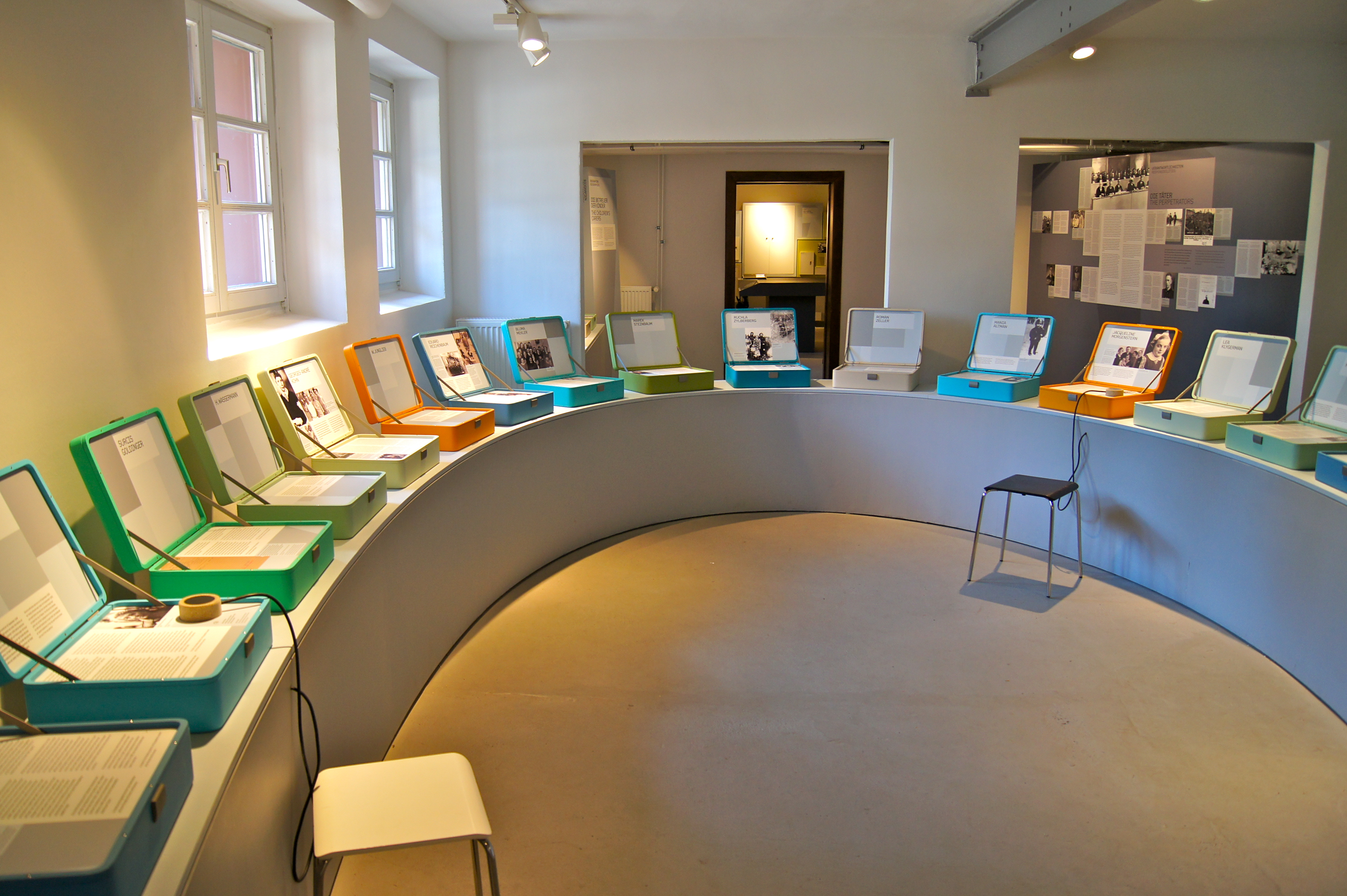 Hamburg (Rothenburgsort), Germany: Room in the Bullenhuser Damm Memorial, dedicated to de biographies of the 20 murdered children